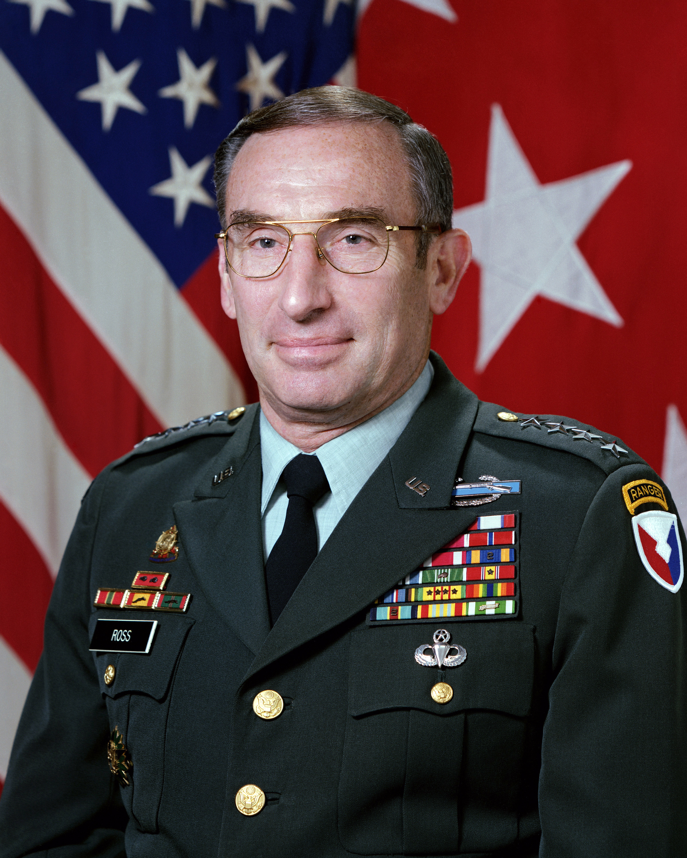 GEN Jimmy Ross, Commander, Army Material Command